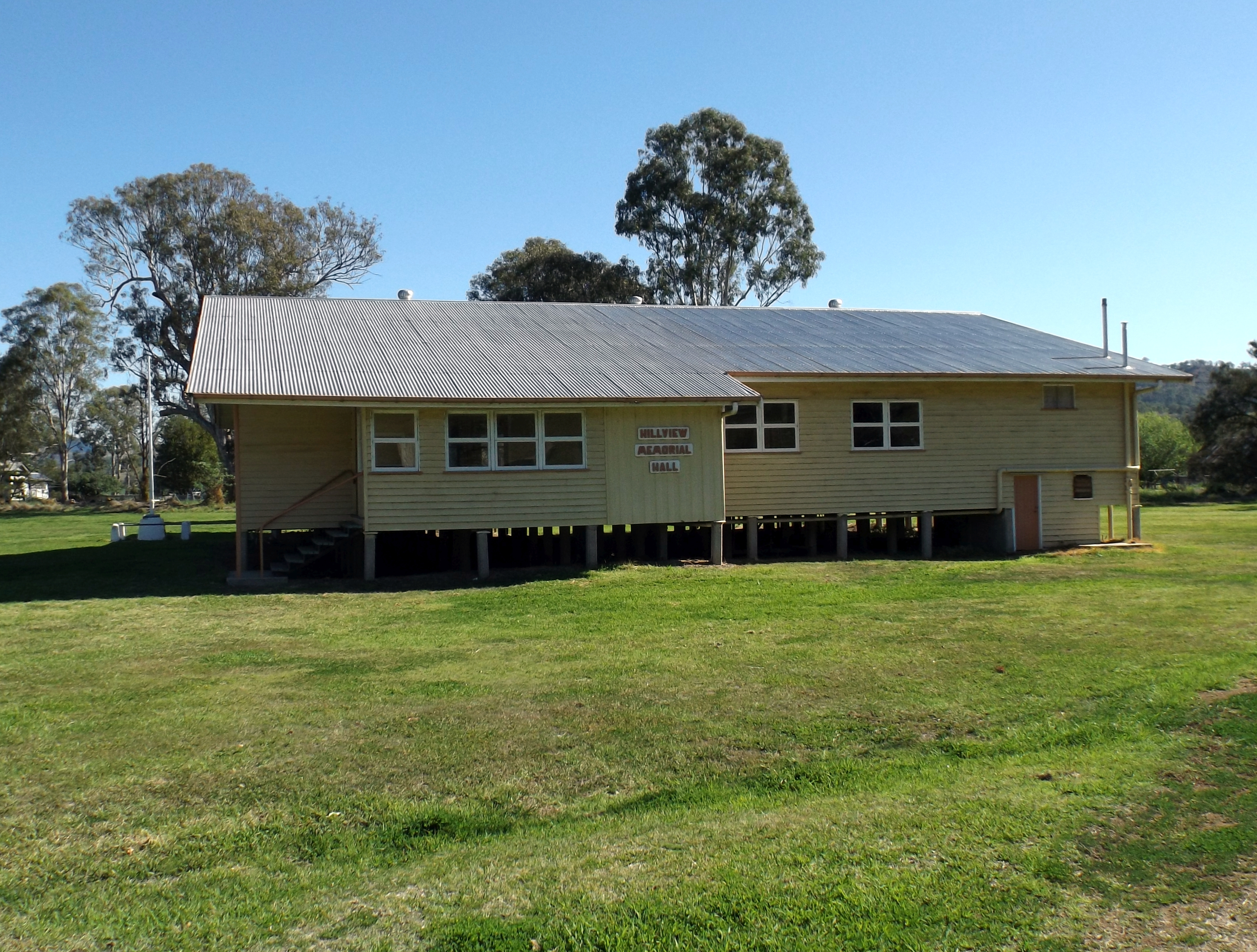 Photo of Hillview Memorial Hall at Hillview, Scenic Rim Region, Queensland, Australia.